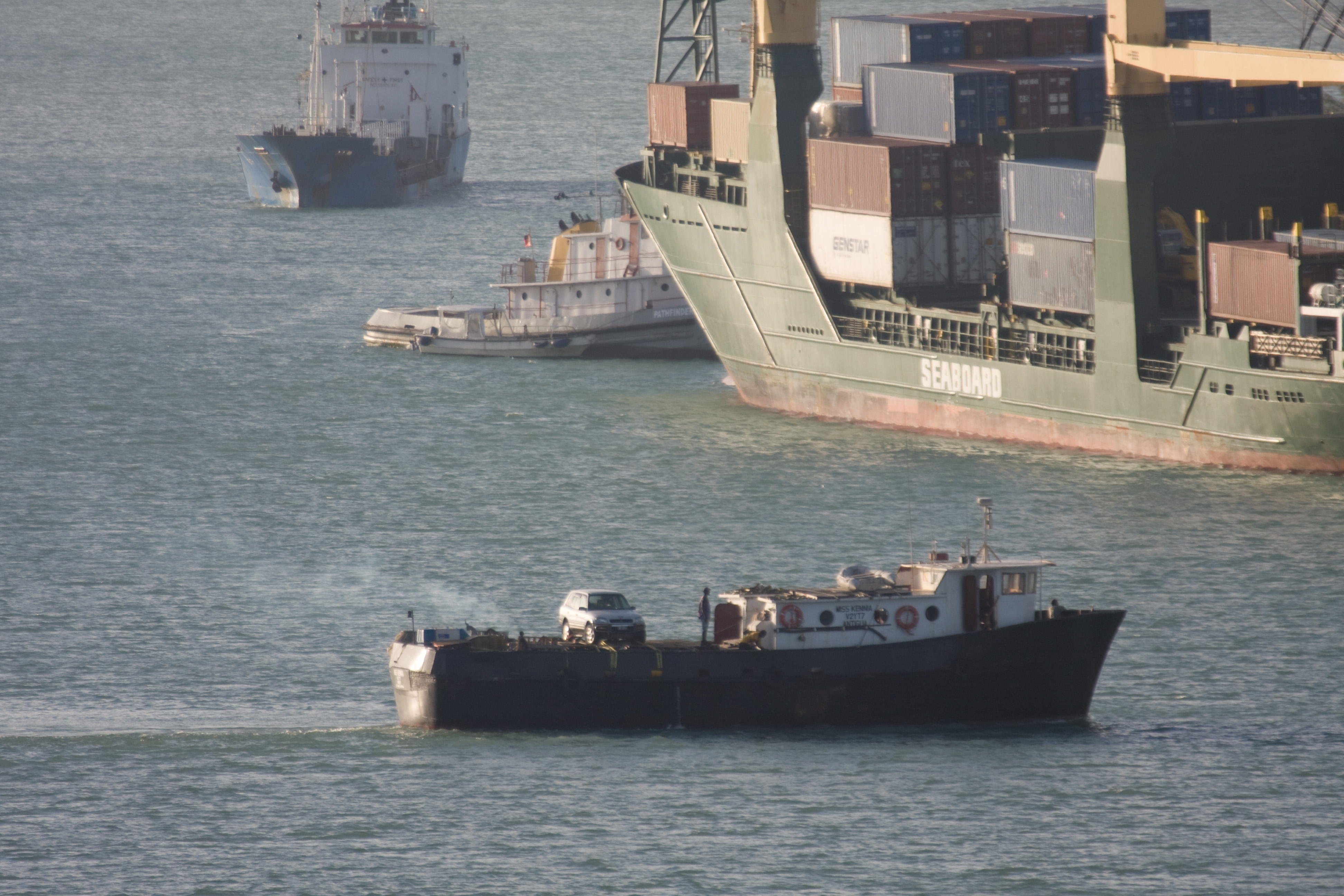 View of the commercial port in St. John, Antigua